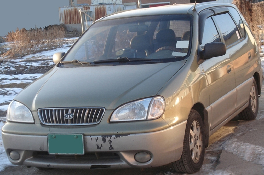 Kia Carens